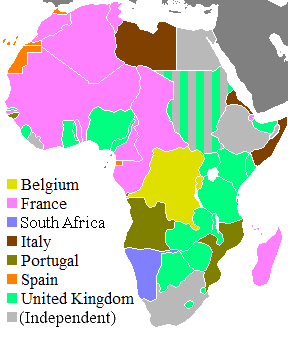 Map showing European claims on Africa in 1923.